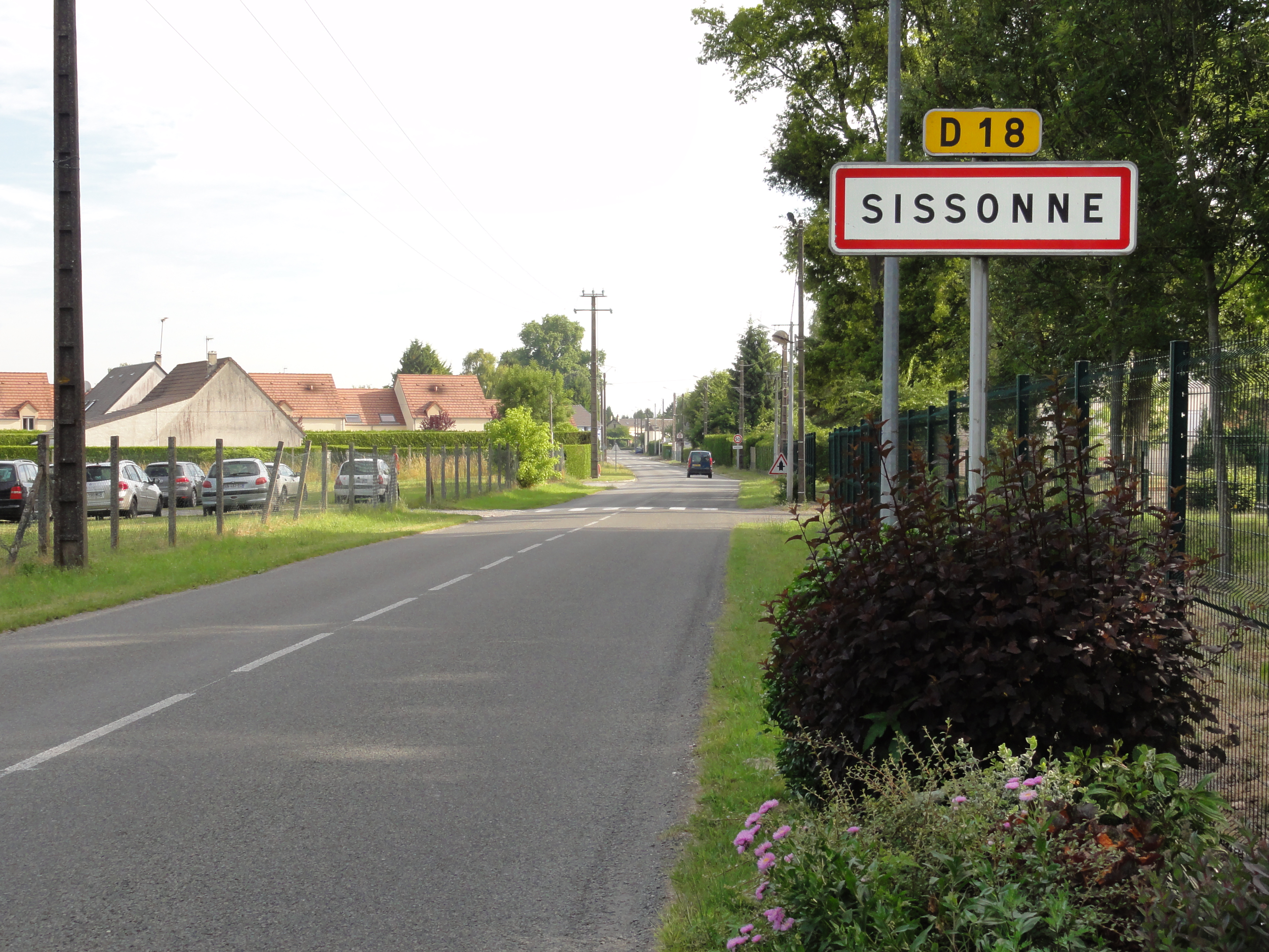 Sissonne (Aisne) city limit sign